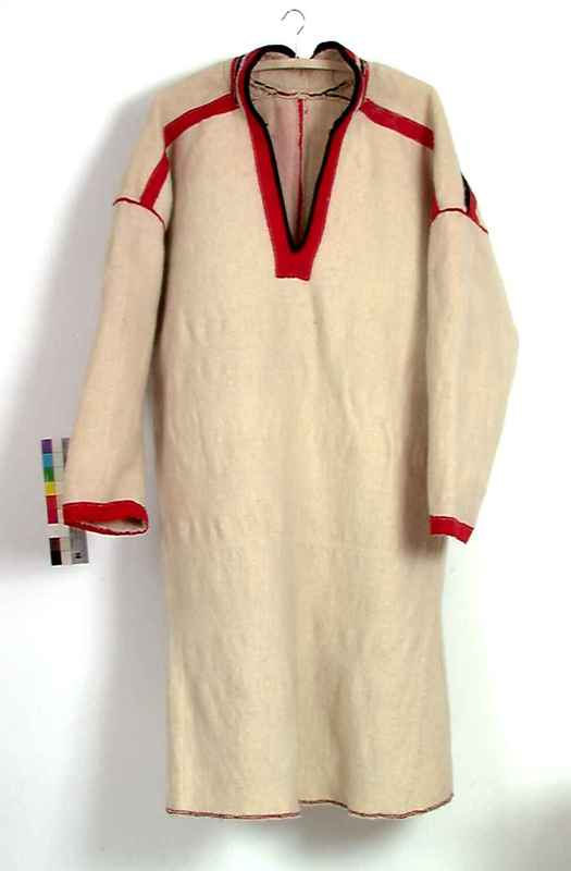 Samisk mannskofte, fra Karasjok. Materiale:Tekstil, ull.Teknikk:Vevd, søm. Farge: Hvit m/sorte, røde, gul påsydde bånd.